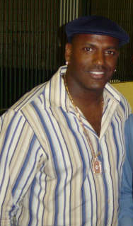 Image depicting Ruben Sierra. Taken by User:f3rn4nd0 for wikipedia and sister projects only.